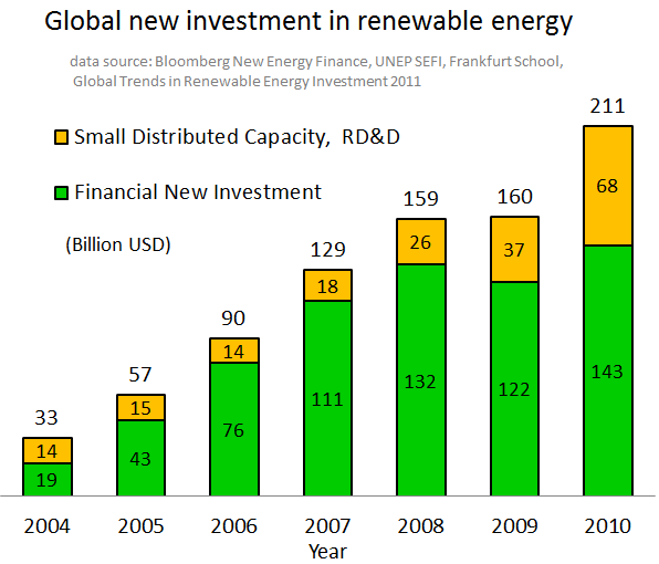 Global Renewable Energy Investment data source: Bloomberg New Energy Finance, UNEP SEFI, Frankfurt School, Global Trends in Renewable Energy Investment 2011